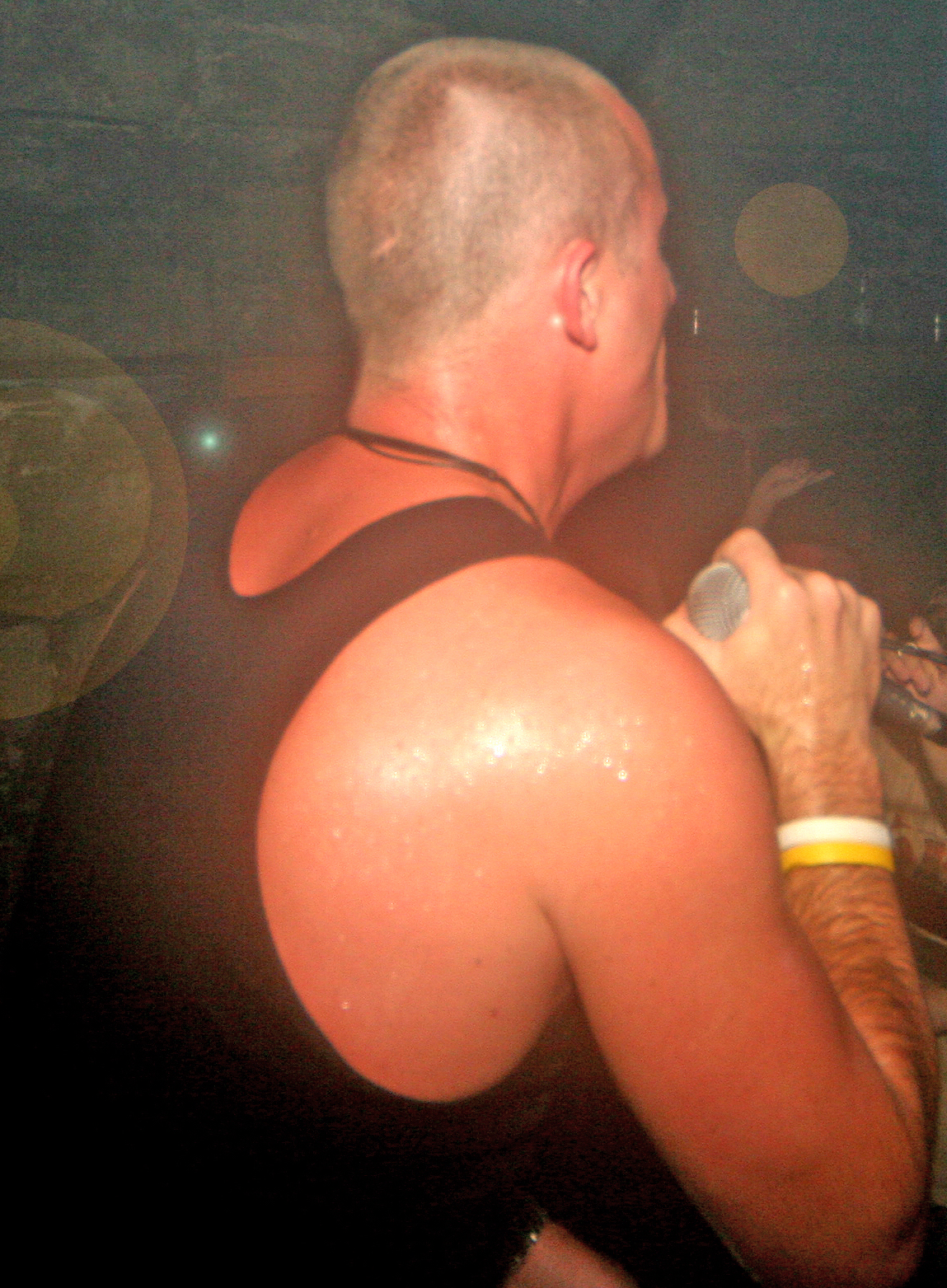 Cropped image of original file to focus on subject